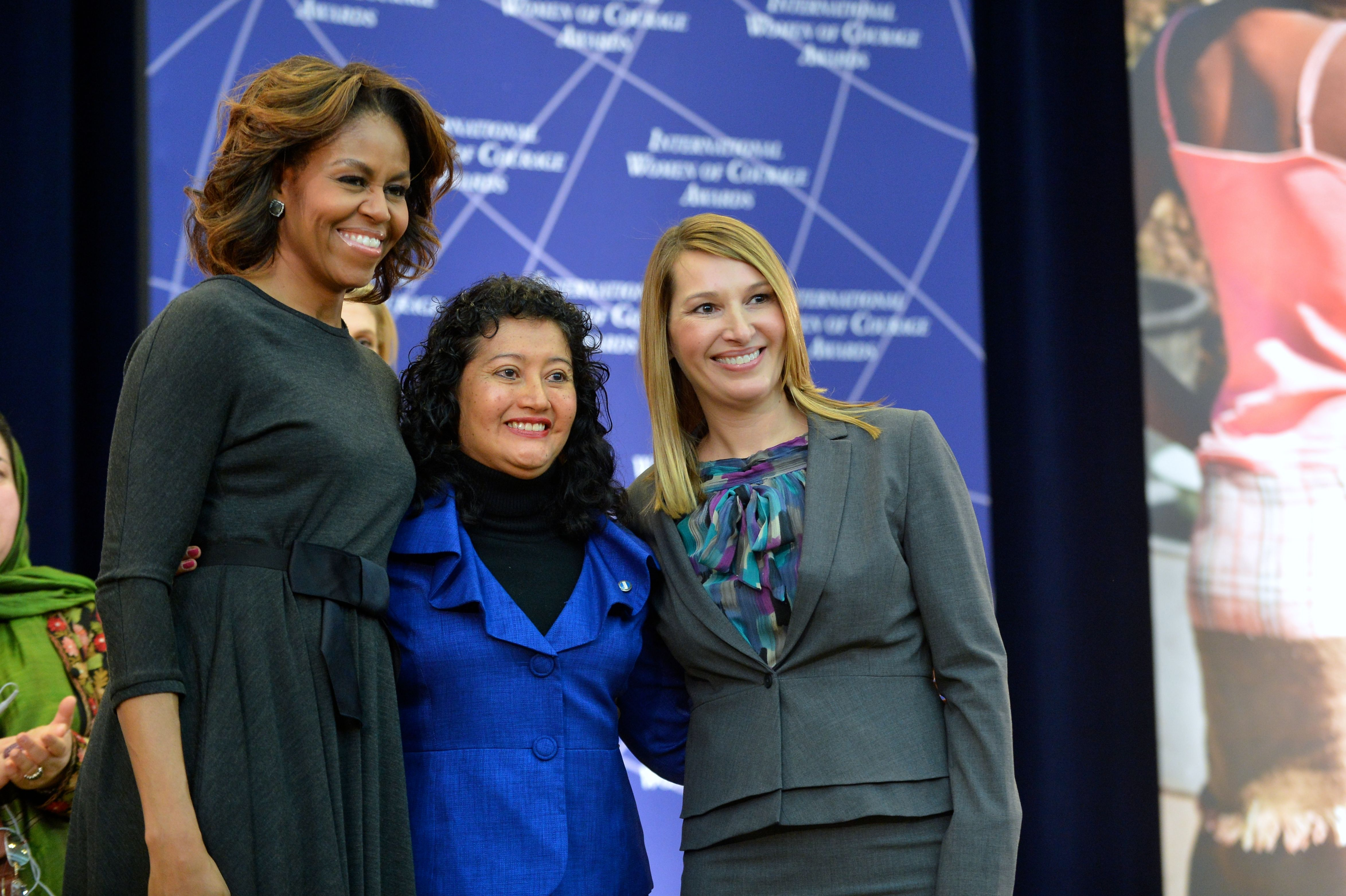 First Lady Michelle Obama and Deputy Secretary Heather Higginbottom pose for a photo with 2014 International Women of Courage Awardee Dr. Iris Yassmin Barrios Aguilar, a Tribunal President of the High Risk Court in Guatemala, at the 2014 Secretary of State’s International Women of Courage Award Ceremony at the U.S. Department of State in Washington, D.C., on March 4, 2014. [State Department photo/ Public Domain]